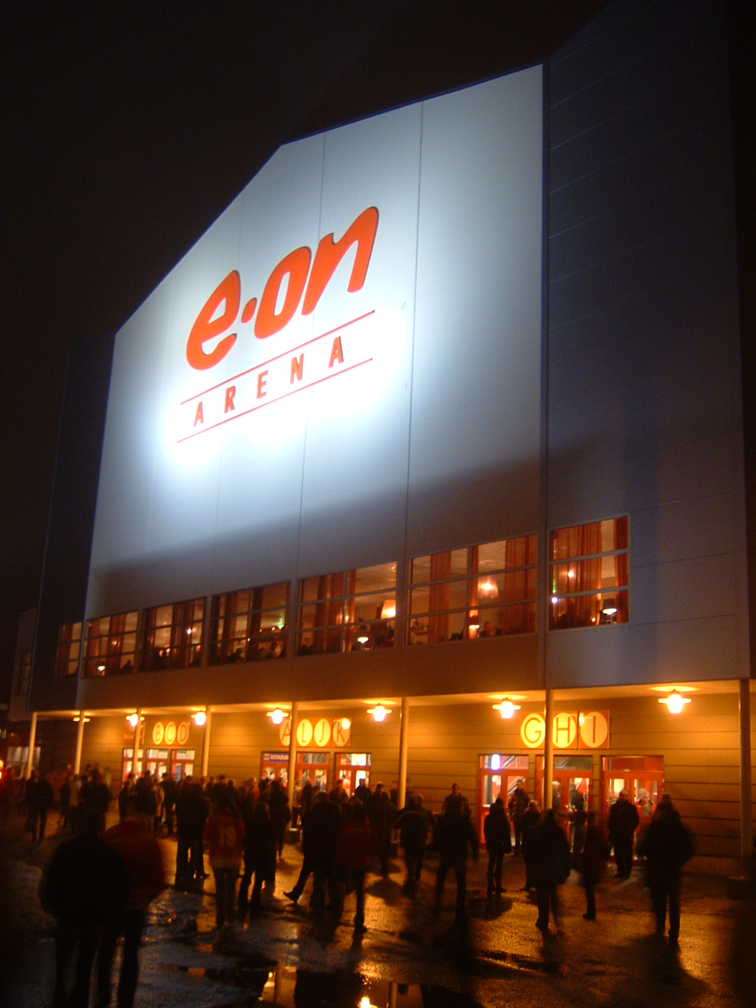 The ice hockey venue "E.ON Arena" at Sportvägen 1 in Sörberge, Timrå Municipality, main entrance viewed from east. The game between Timrå IK and Färjestad BK (4-2) of the 2006–2007 Elitserien season attracted 5107 spectators on a Tuesday night.